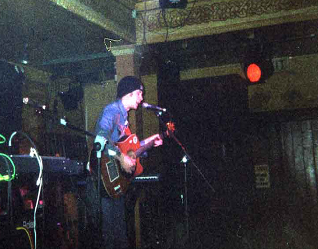 Mic Christopher live at Whelans in Dublin a few months before his death